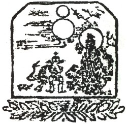 A Daoist numismatic charm depicting the "Quest for Immortality" on the obverse and Taoist "magic writing" (Fulu) on its reverse side.